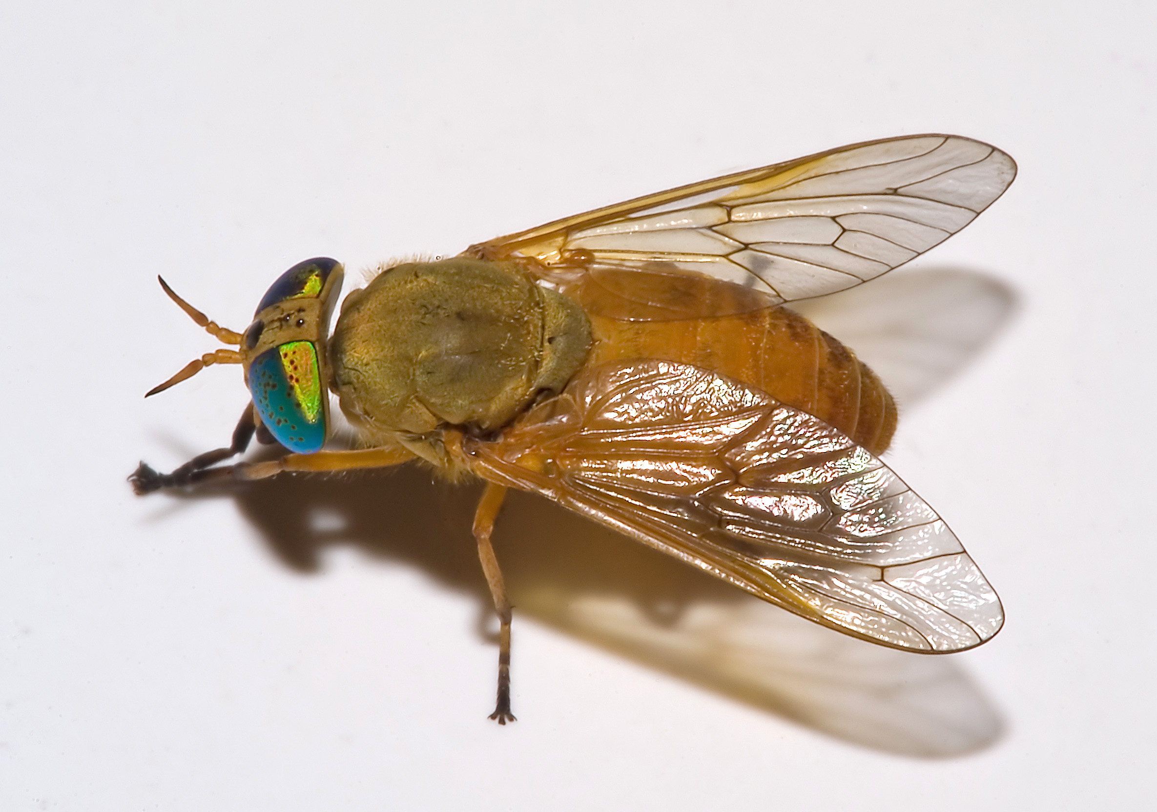 Please report references to .